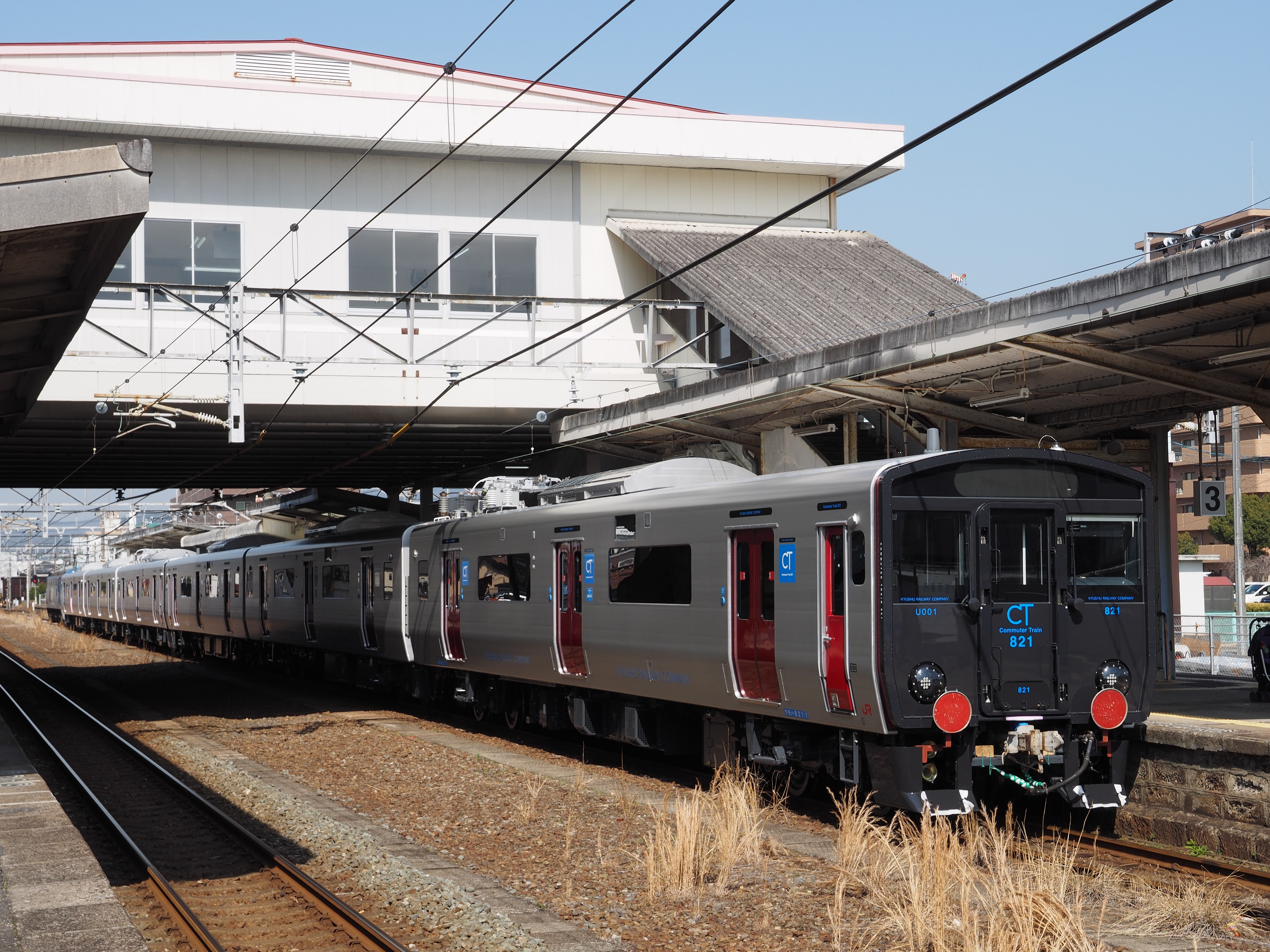 JR Kyushu 821 series EMU sets U001 and U002 at Kudamatsu Station in Yamaguchi Prefecture, Japan on delivery from the nearby Hitachi factory